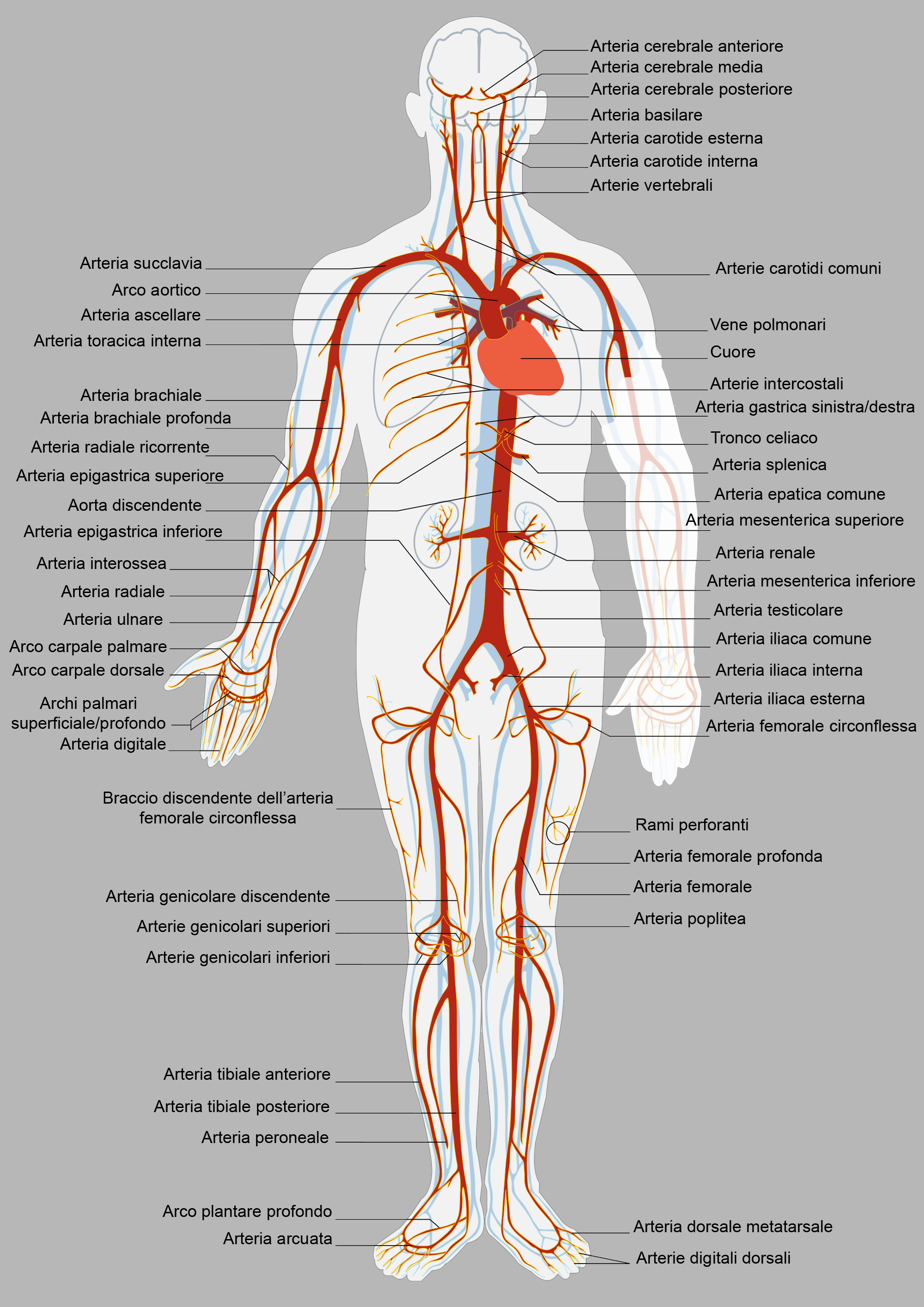 simplified diagram of the human Arterial system in anterior view.